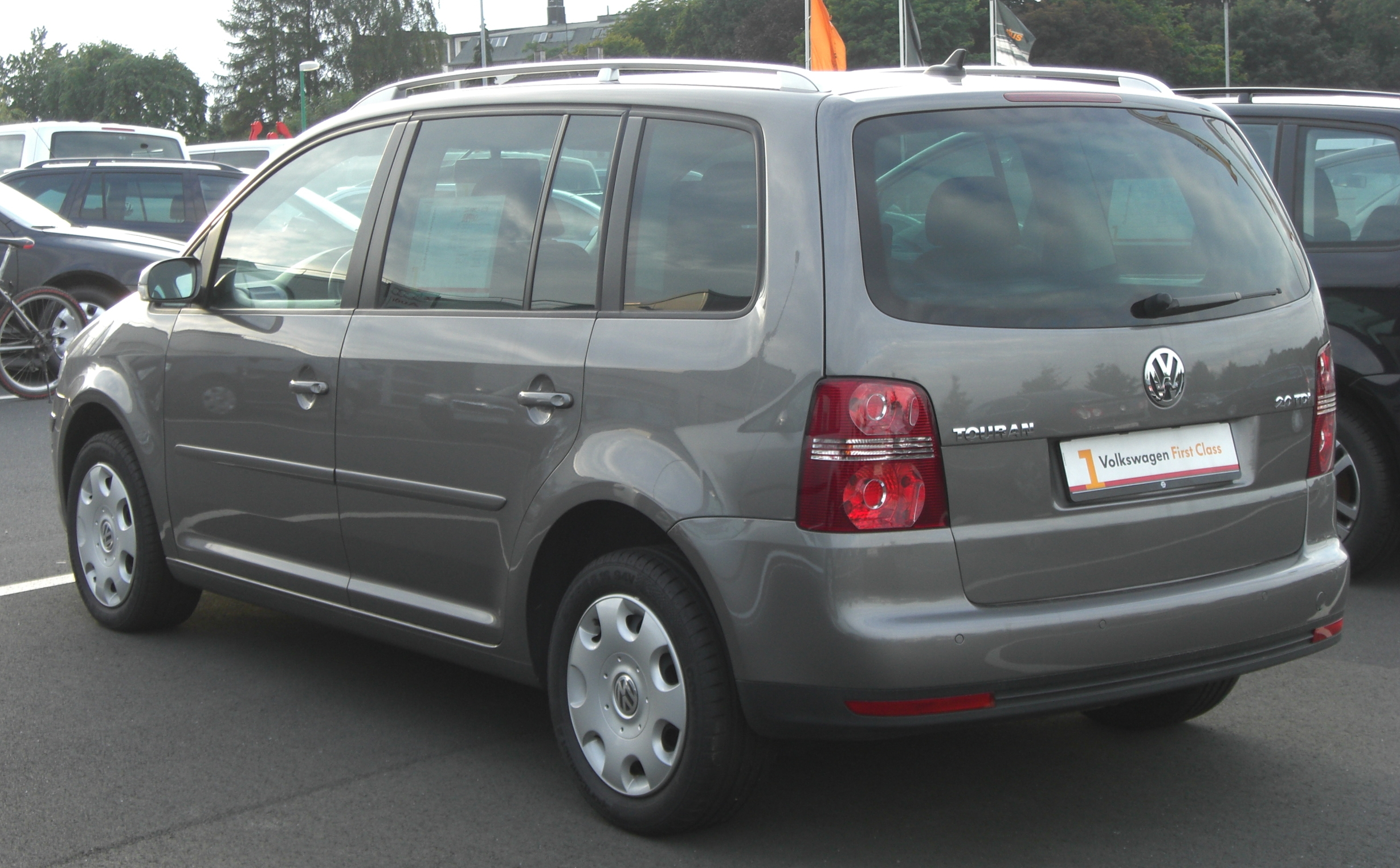 VW Touran (Facelift)